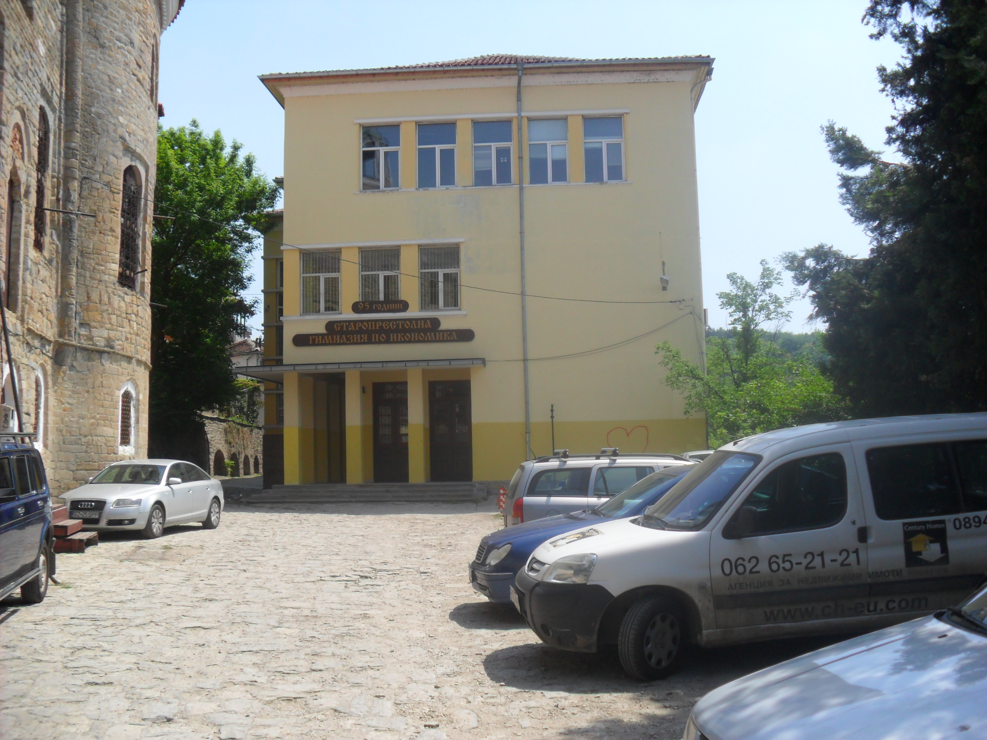 May 2015